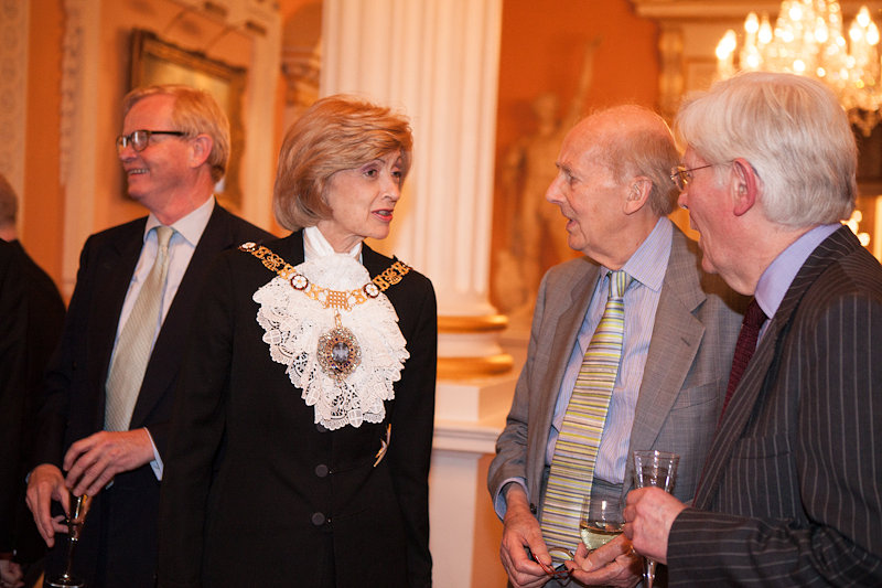 Dame Fiona Woolf, Lord Major of London (2013-14), in conversation with Sir Nicolas Goodison (President of the FHS) at the societies 50th Anniversary Reception at Mansion House, 5th June 2014.